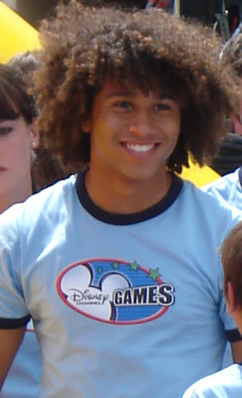 Corbin Bleu at the 2007 Disney Channel Games in Orlando, Florida. Photo taken at Disney's Wide World of Sports Complex.